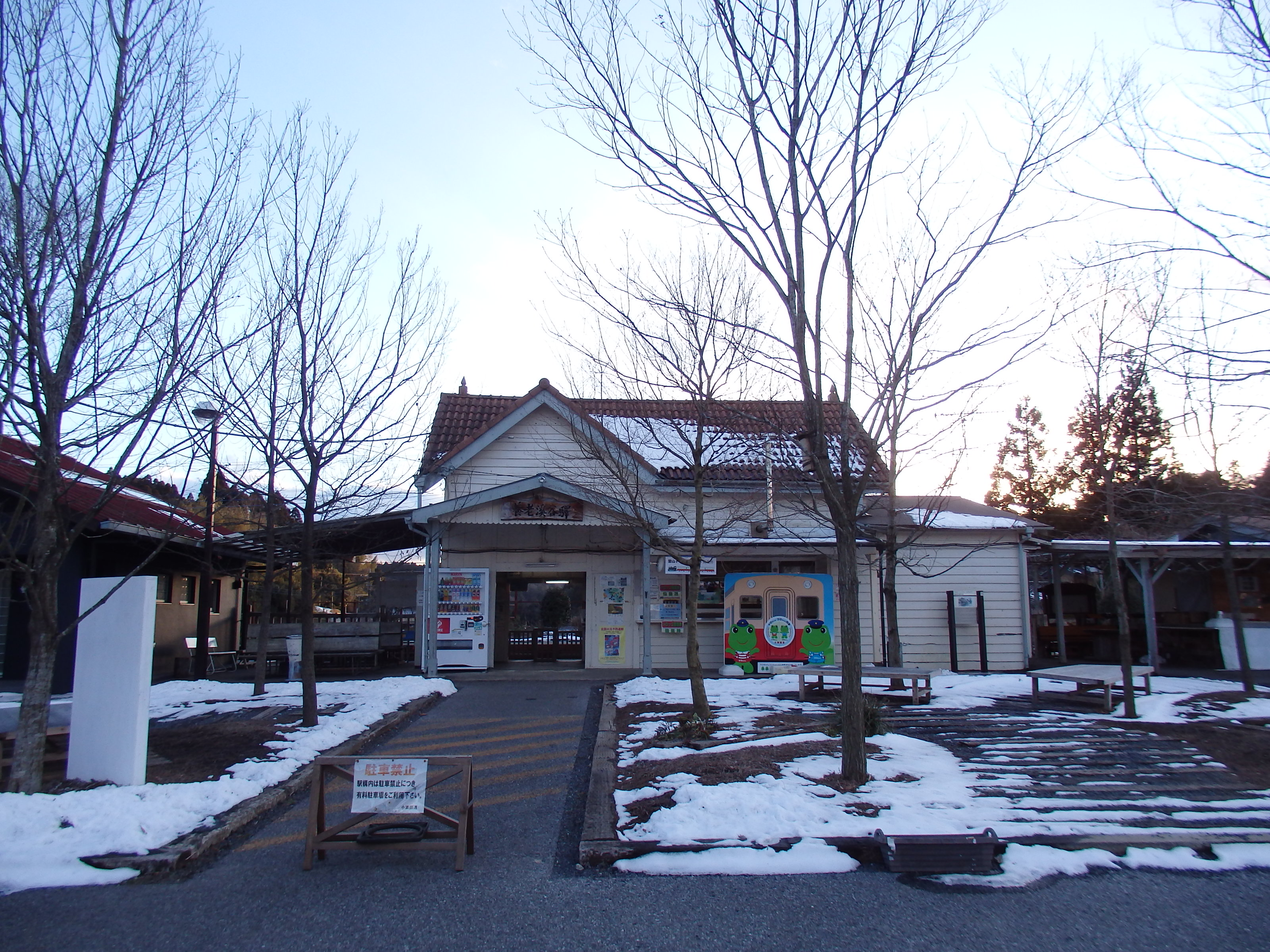 Yorokeikoku Station after "Re-development".